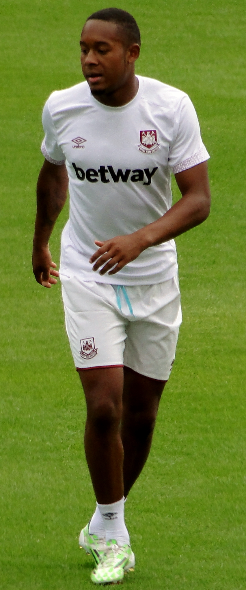 West Ham United player, Jaanai Gordon warming-up before their friendly game against Peterborough United at London Road, Peterborough